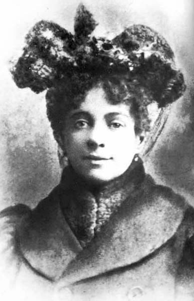 Portrait of Hannah Chaplin, who worked as a music hall performer under the stage name "Lily Harley"